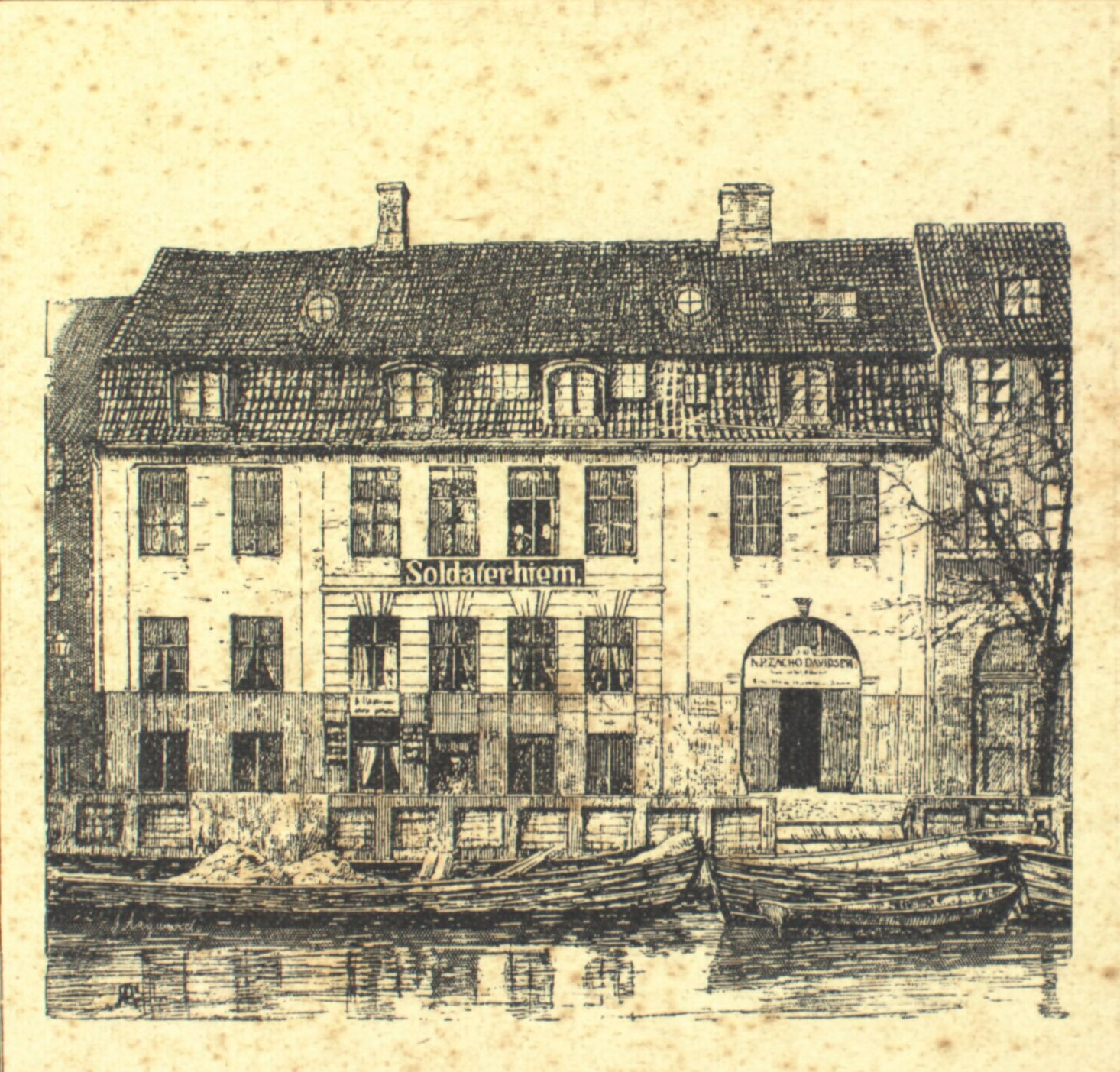 Brøstes Gård in Copenhagen, Denmark